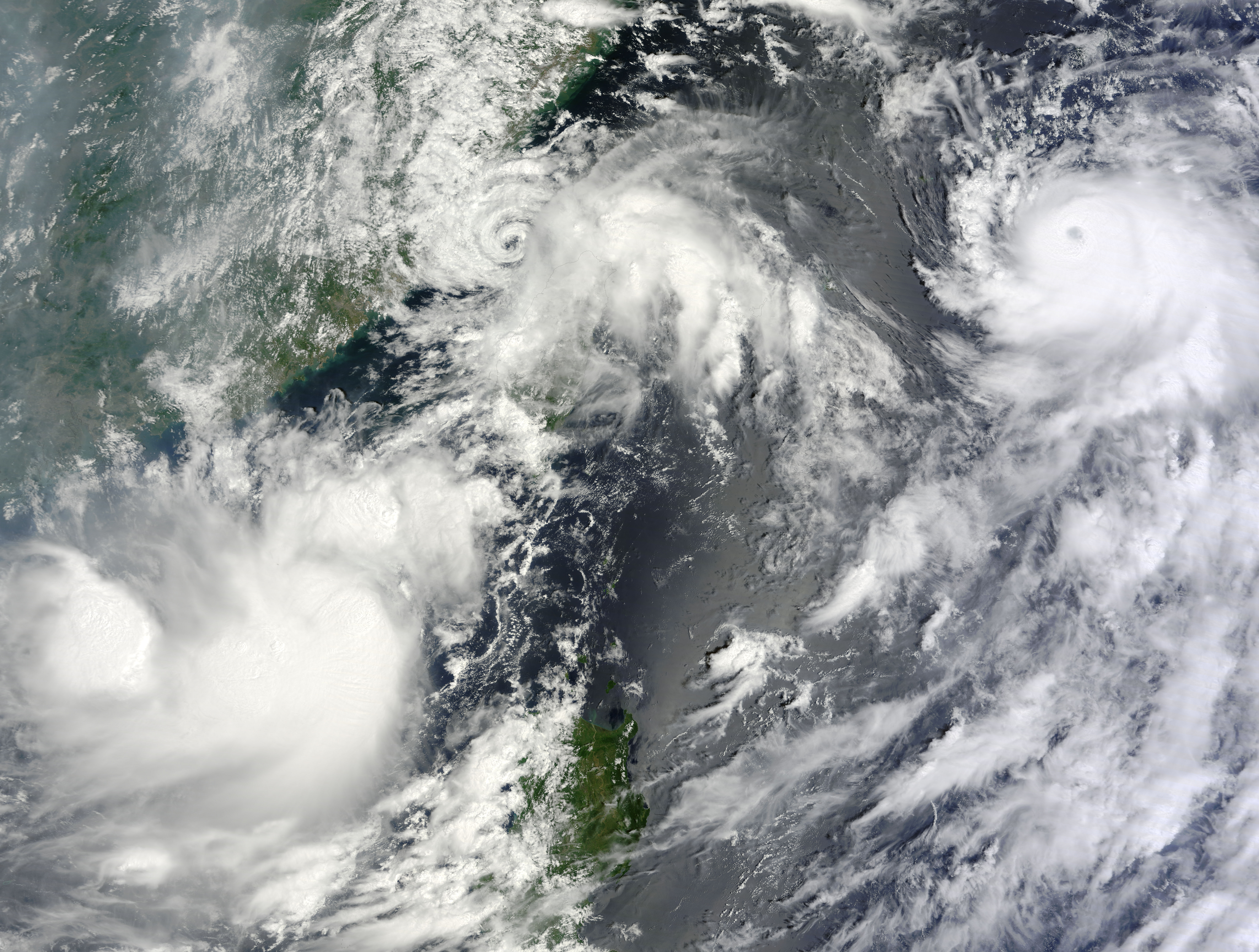 Tropical Storms Lionrock (07W; left) and Namtheun (09W; center) and Typhoon Kompasu (08W; right) off the Chinese coast on August 31, 2010.